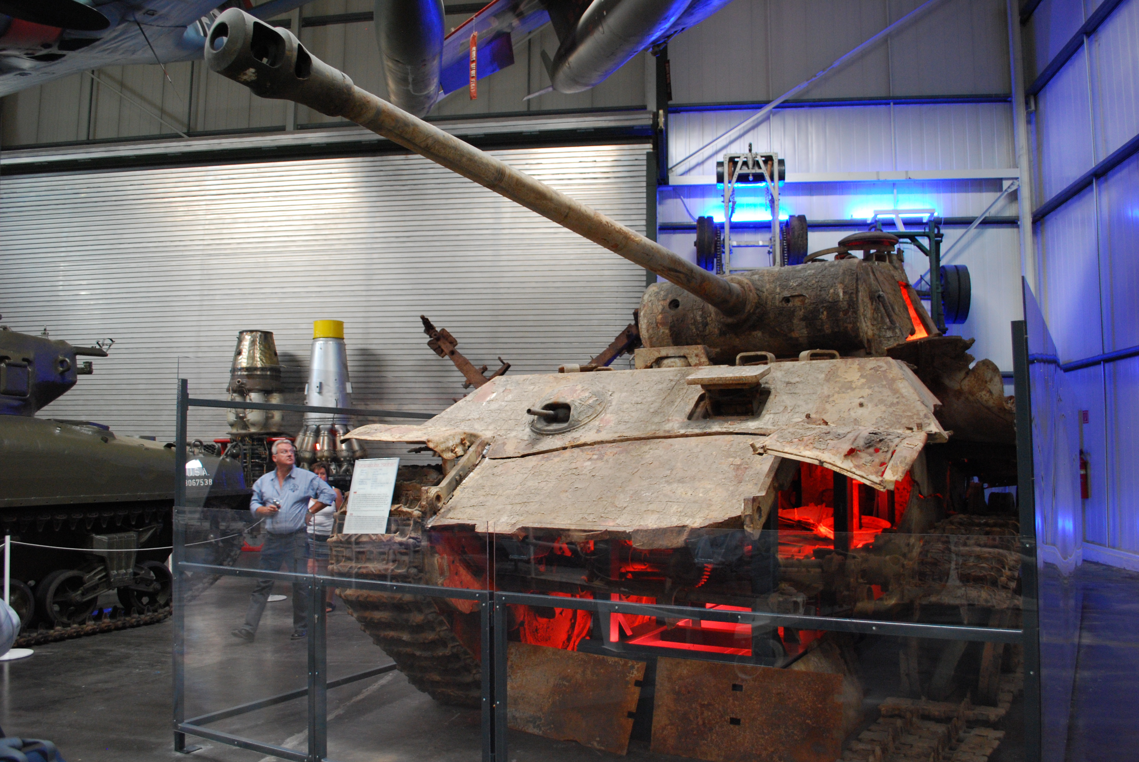 “Special purpose vehicle” of the German Wehrmacht until 1945, here: Sd.Kfz 171, German medium tank V, also Tank V, better known as "Panther", versions: D, A and G (version F, planning only). Actual file: "Panther", Ausf. G with 7.5-cm-KwK 40, exposed at the Auto & Technik Museum, Sinsheim / Germany.